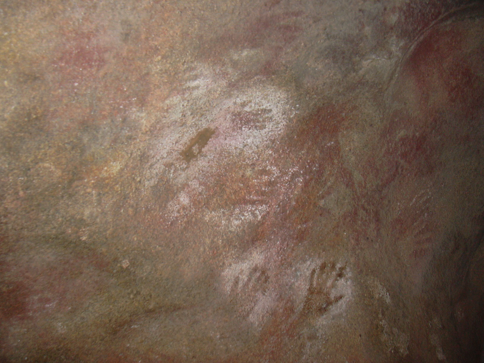 Aboriginal rock design (painted hand marks), Mulka's Cave (Western Australia)